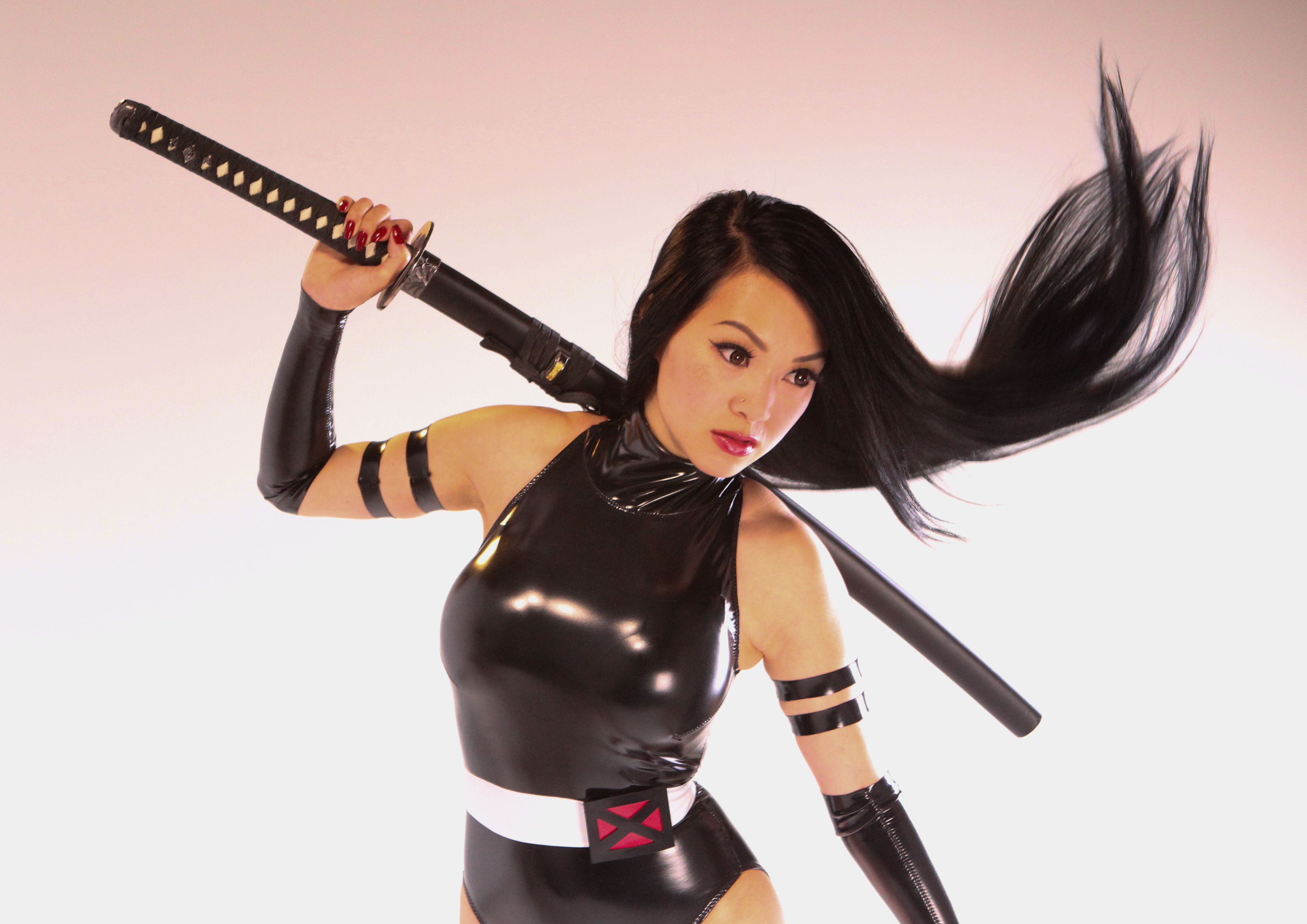 Taken on July 15, 2013